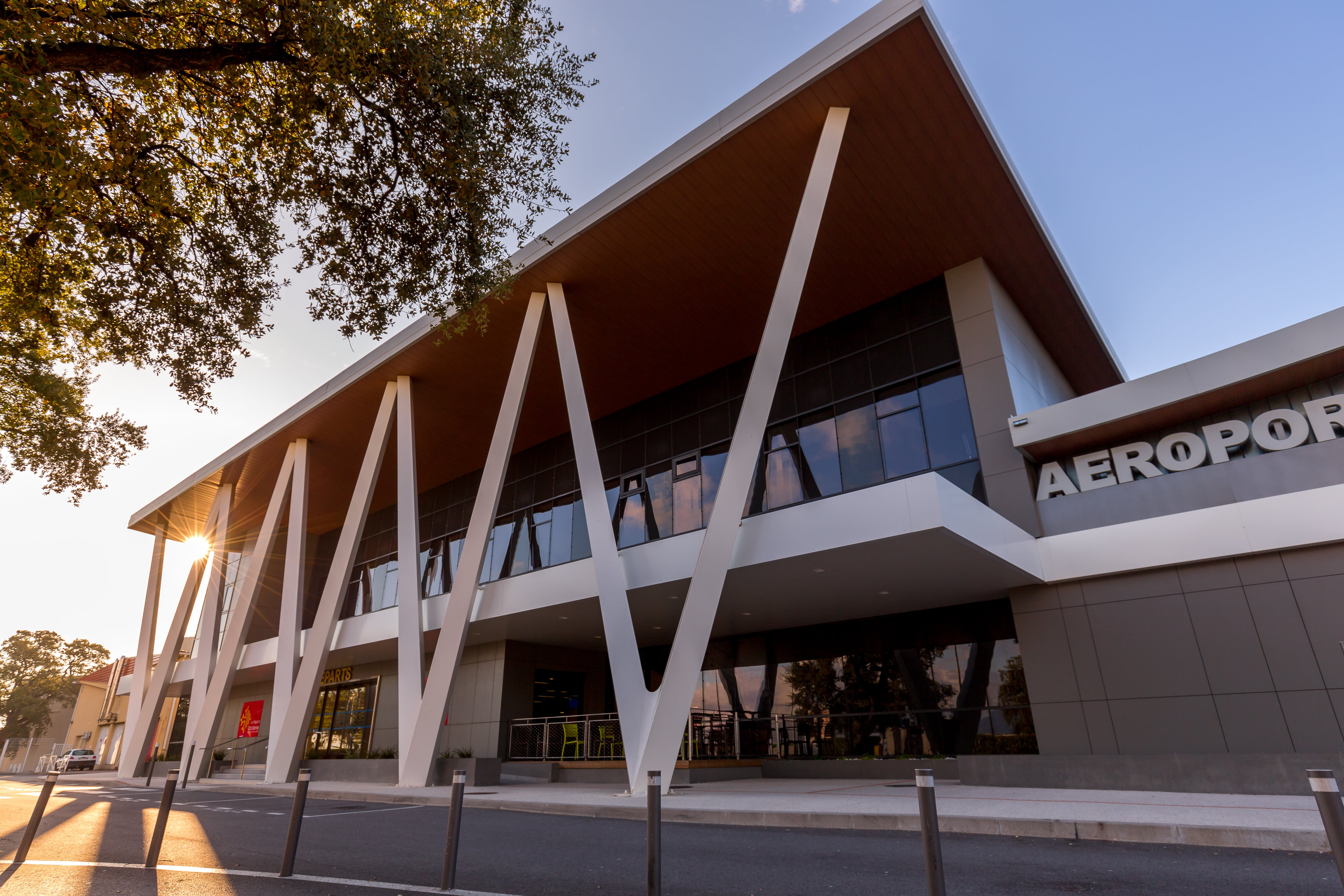 Perpignan Airport